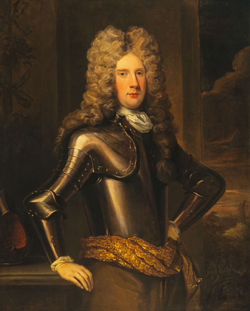 Portrait of Lord John Hay (c.1668–1706), Scottish soldier.